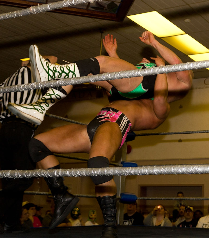 Harry Smith executes a German suplex on Fit Finlay on a Stampede Wrestling show, 6th November 2011